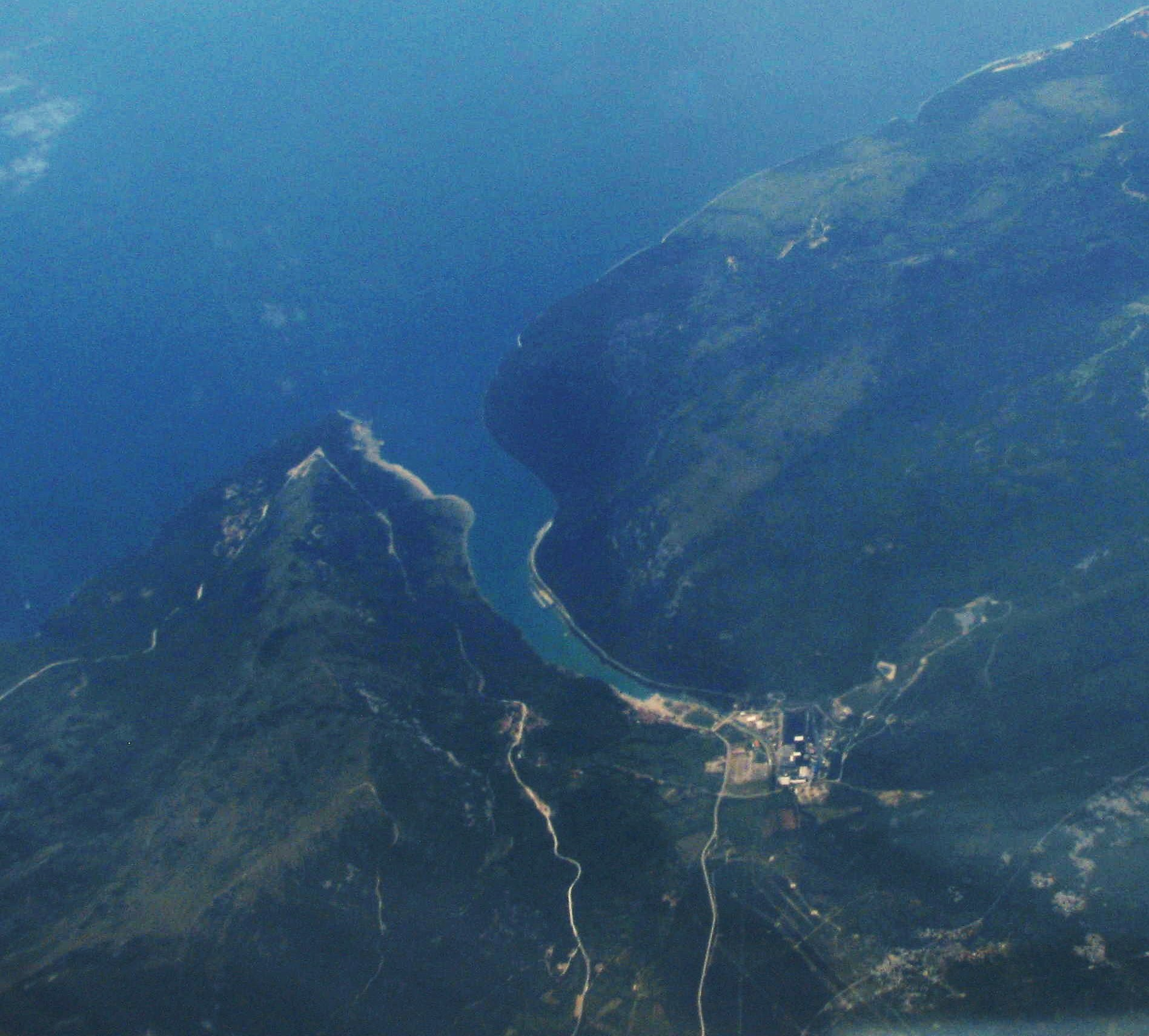 Plomin bay, Istria